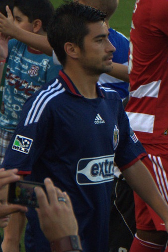 Paulo Nagamura of Chivas USA during the pre-game introduction vs FC Dallas